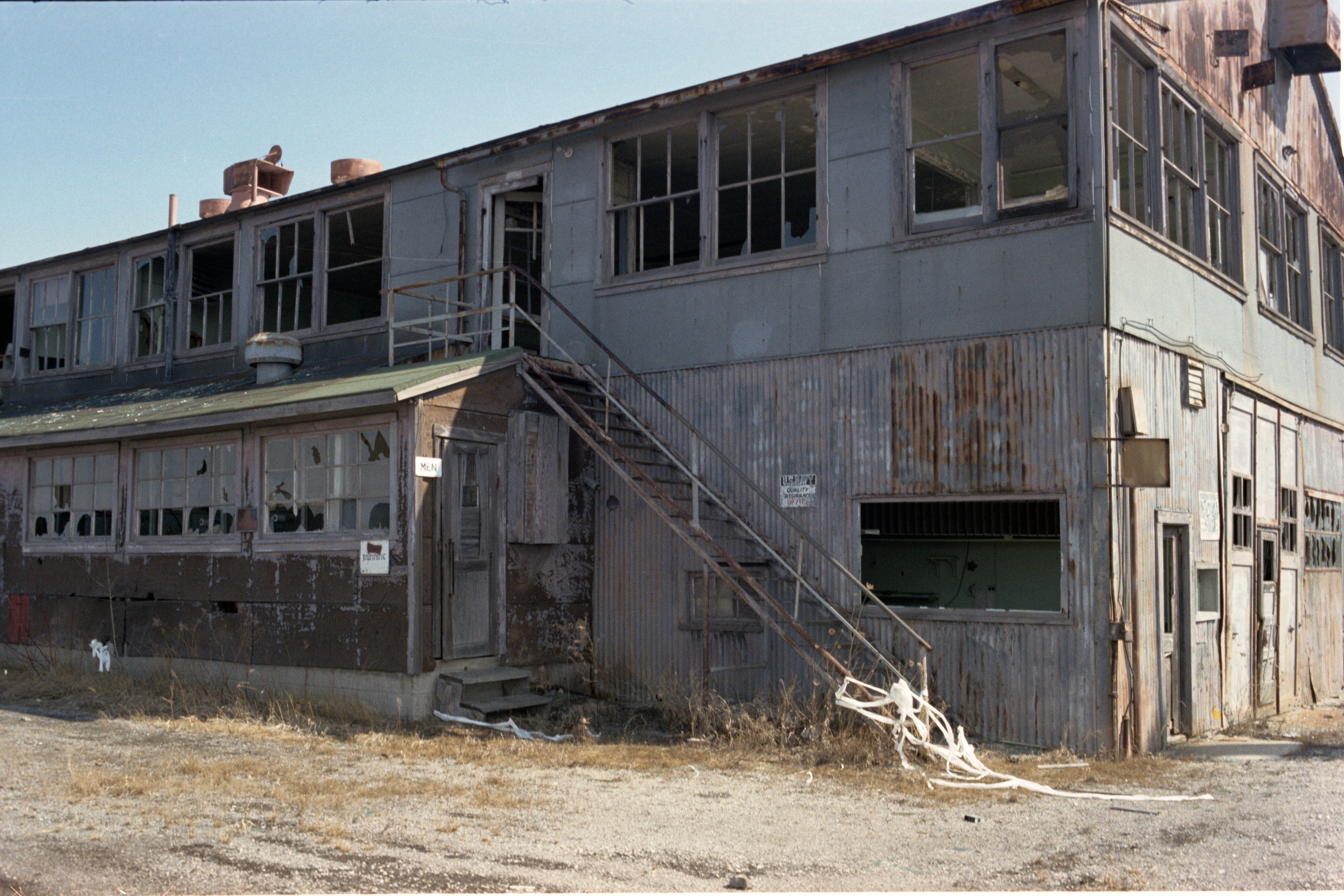 Abandoned shipbuilding yards 1981. Administration offices.